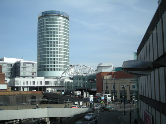 The Rotunda and an entrance to the 'Bullring' centre. Now converted into 'luxury' flats this iconic building used to be an office block and a bank. The two dark patches (windows) beneath the Rotunda is the Birmingham Tourist Information Office which is also the site of 'The Mulberry Bush' pub, one of the pubs involved in the bomb attack of 1974. The picture was taken from the bridge connecting 'The Pallasades' shopping centre above New St Station and 'The Bullring' centre.